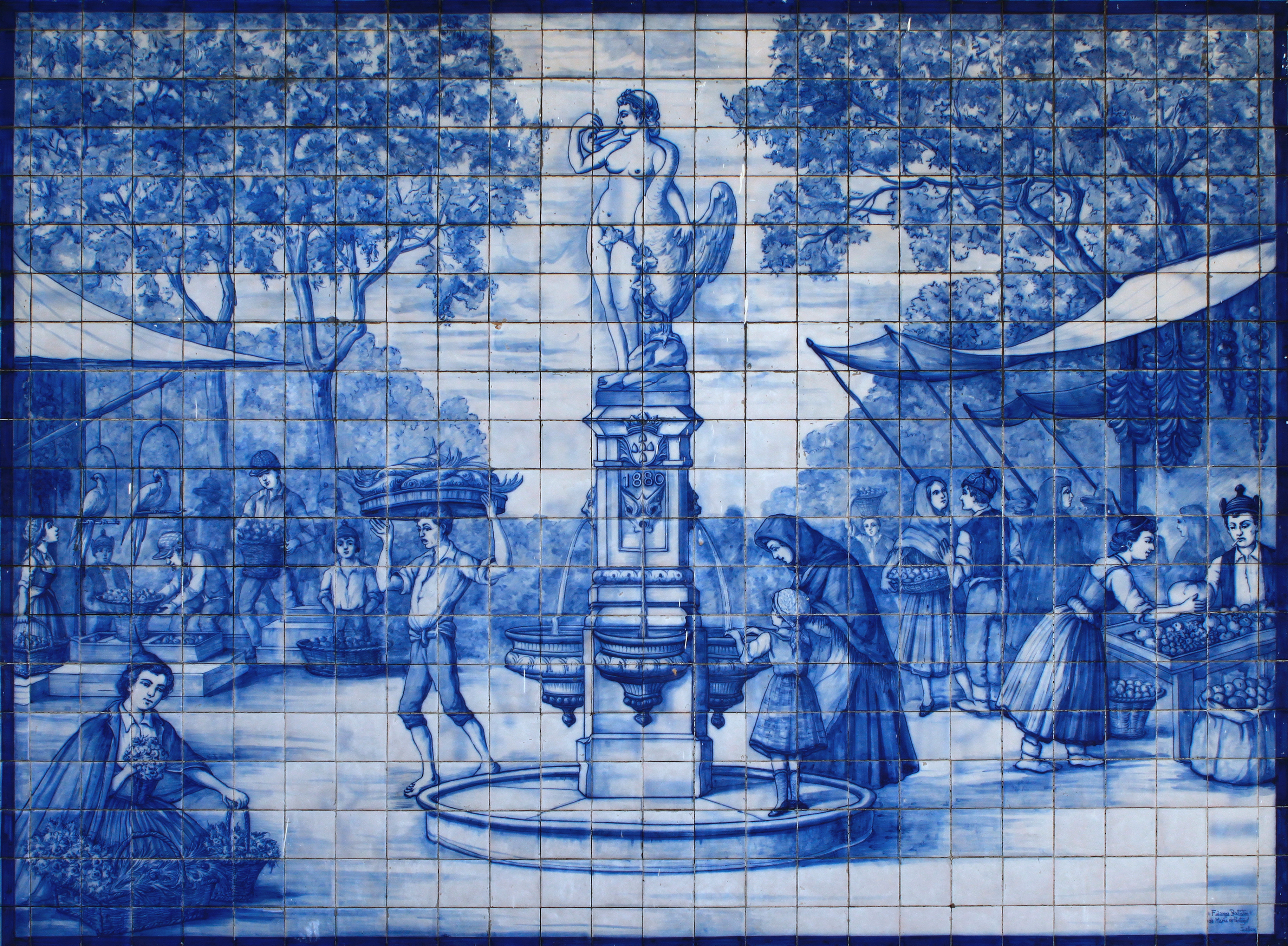 Ceramic tiles (Azulejo) with a market scene at the wall of the Mercado dos Lavradores, Funchal, Madeira, Portugal